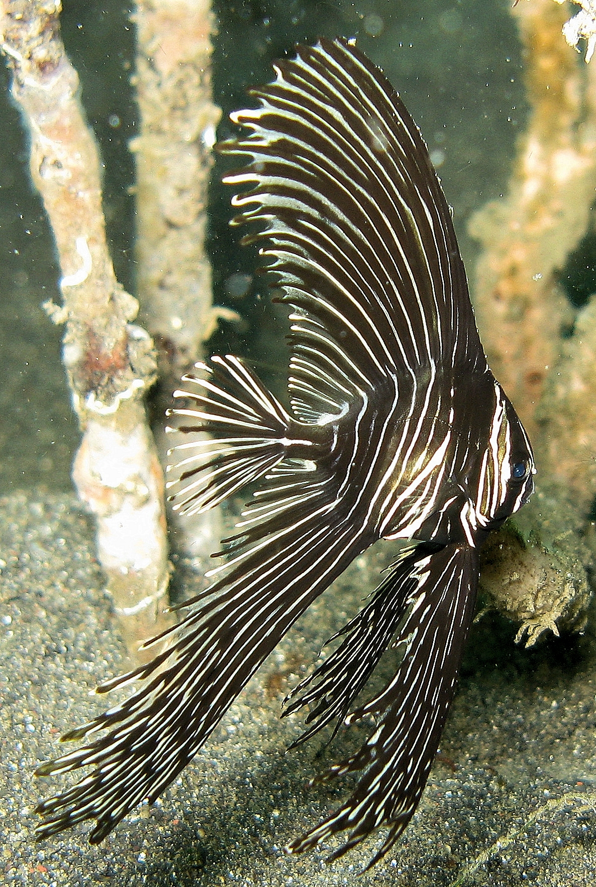 Platax batavianus - Juvenile Humpback BatFish